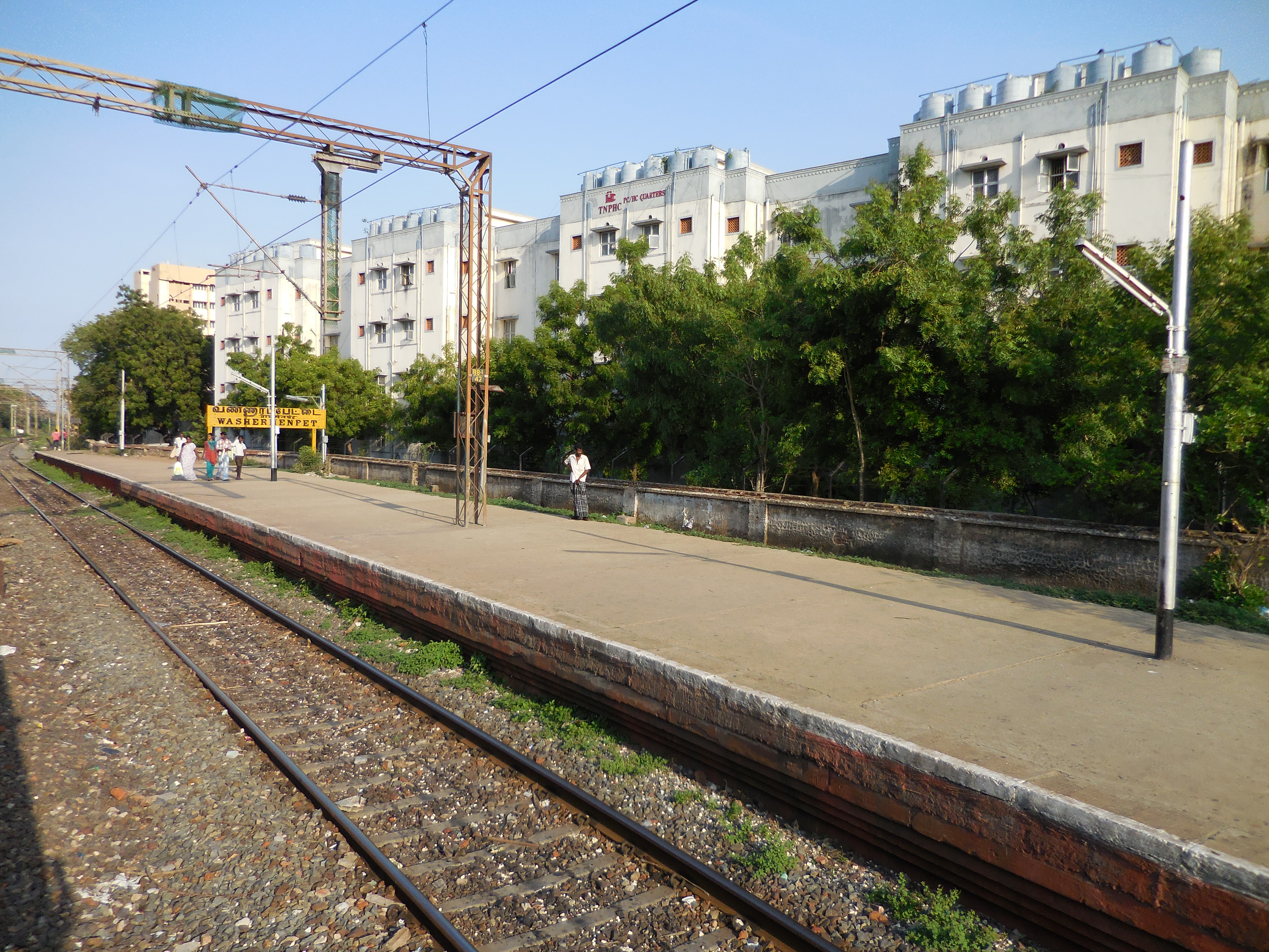 Eastern view of Washermanpet Railway Station, Chennai, taken on 6 July 2014 at 5:02 pm